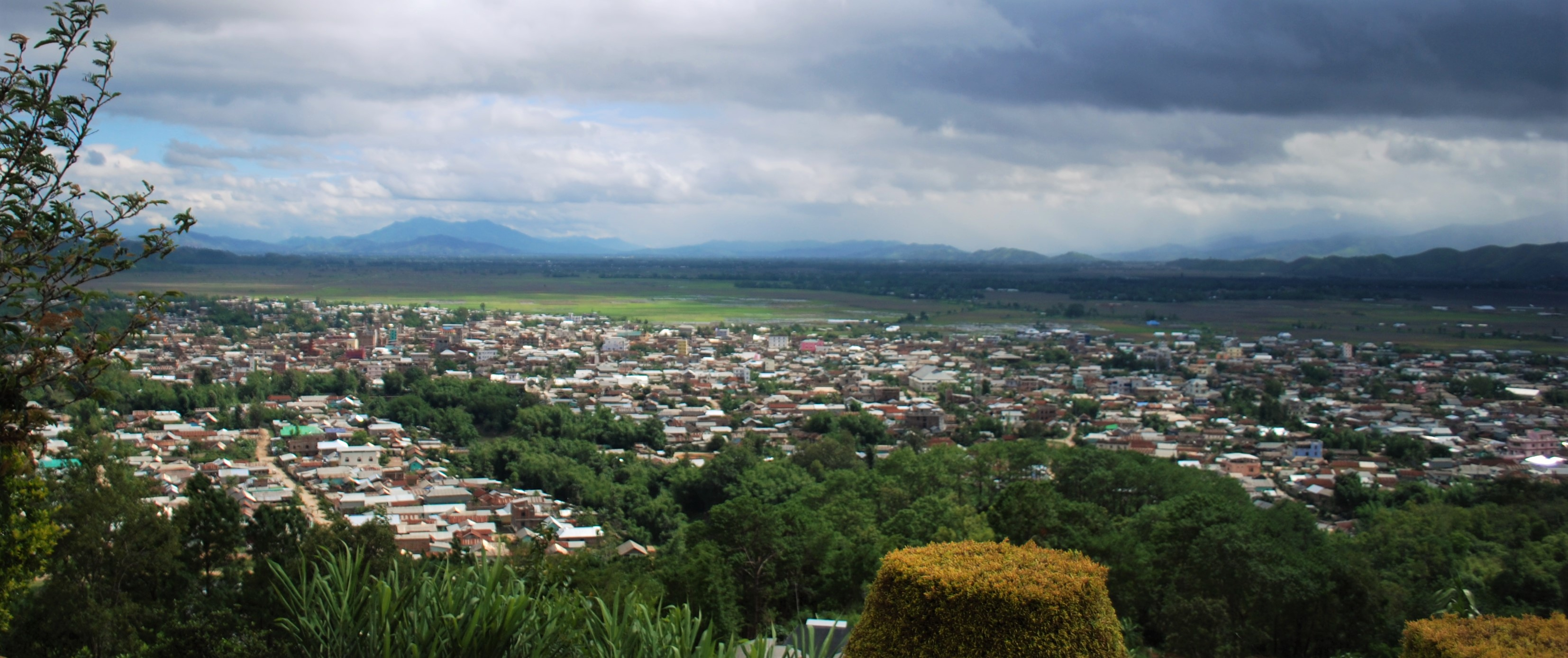 Middle view of kakching from Kakching